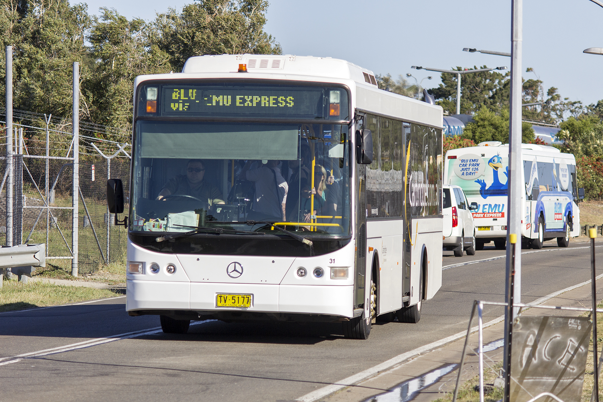 Carbridge (TV 5177) Volgren 'CR228L' bodied Mercedes-Benz O500LE on Ross Smith Ave at Sydney Airport.j